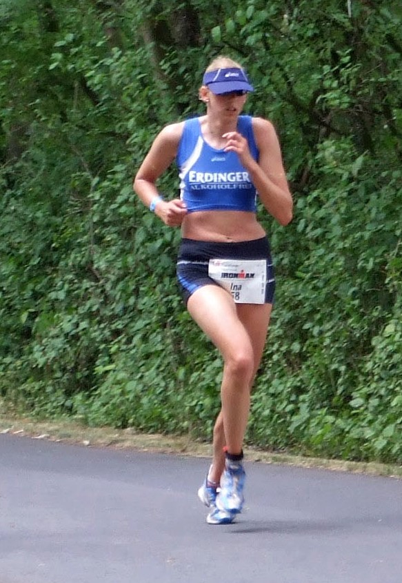 Ina Reinders, Ironman Germany, Frankfurt 2008